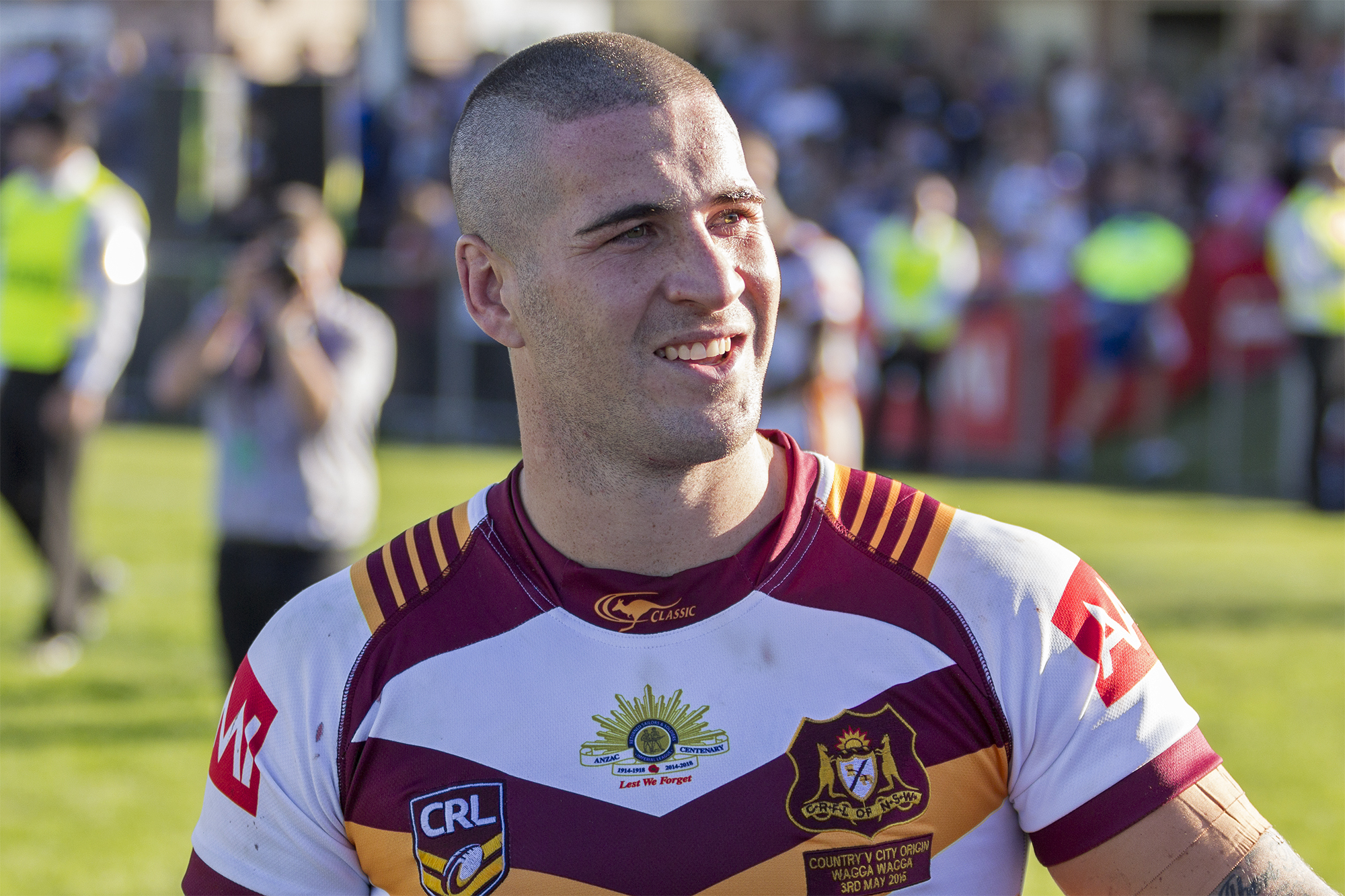 Joel Thompson playing for Country in the City vs Country Origin game at McDonalds Park in Wagga Wagga.